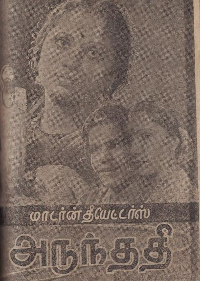 Cover page of 1943 Indian Tamil film Arundhati song book